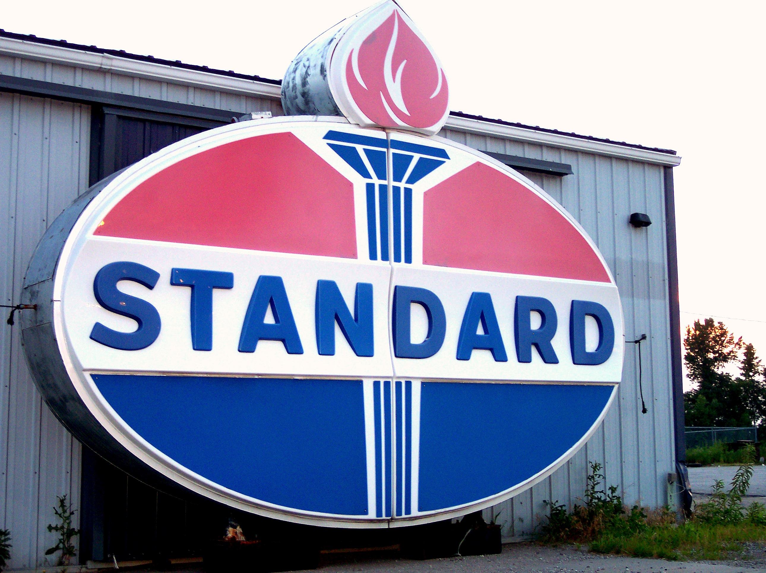 A large Standard Oil (Amoco) sign resting against a shed